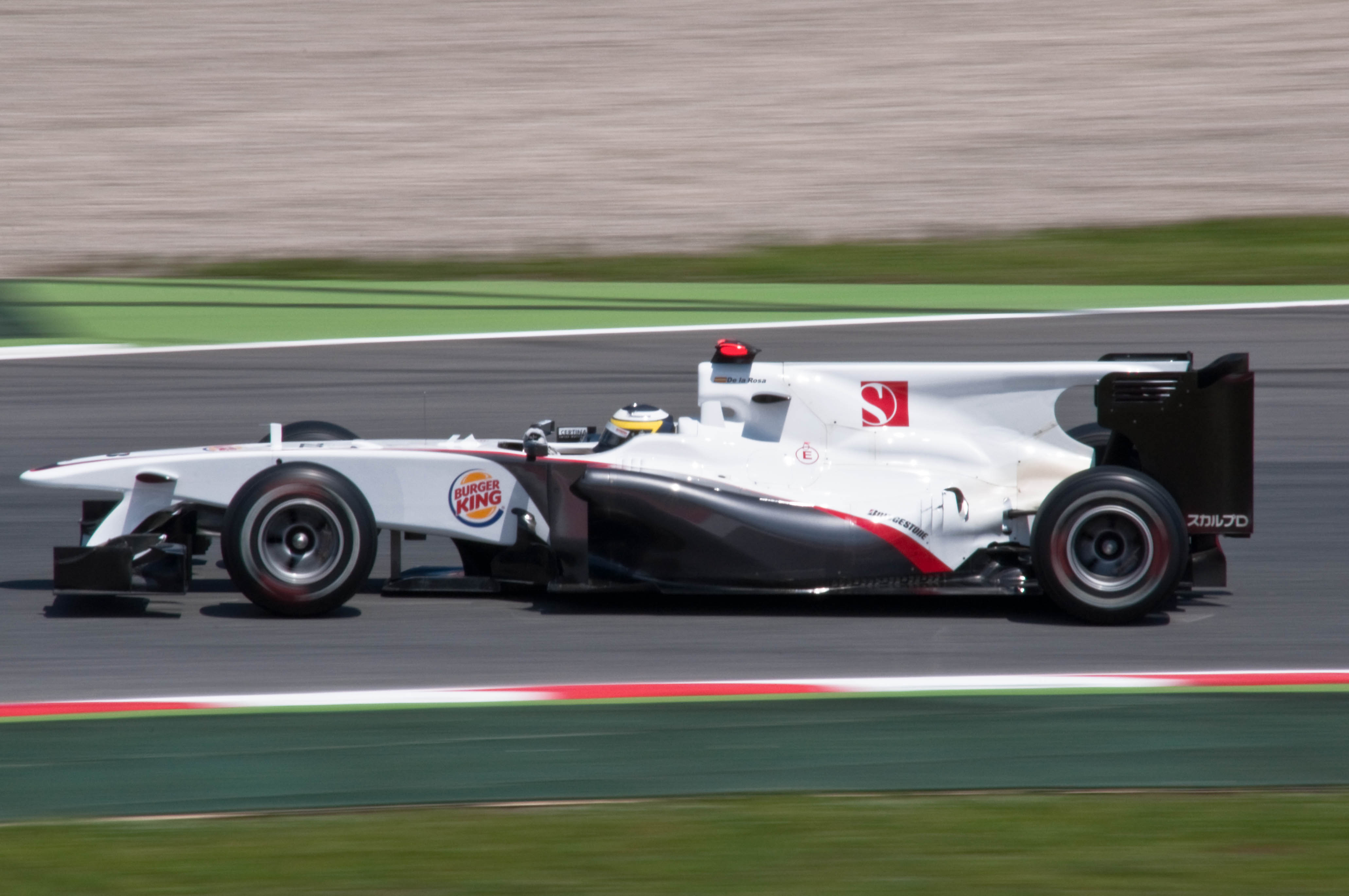 Pedro de la Rosa driving for Sauber at the 2010 Spanish Grand Prix.